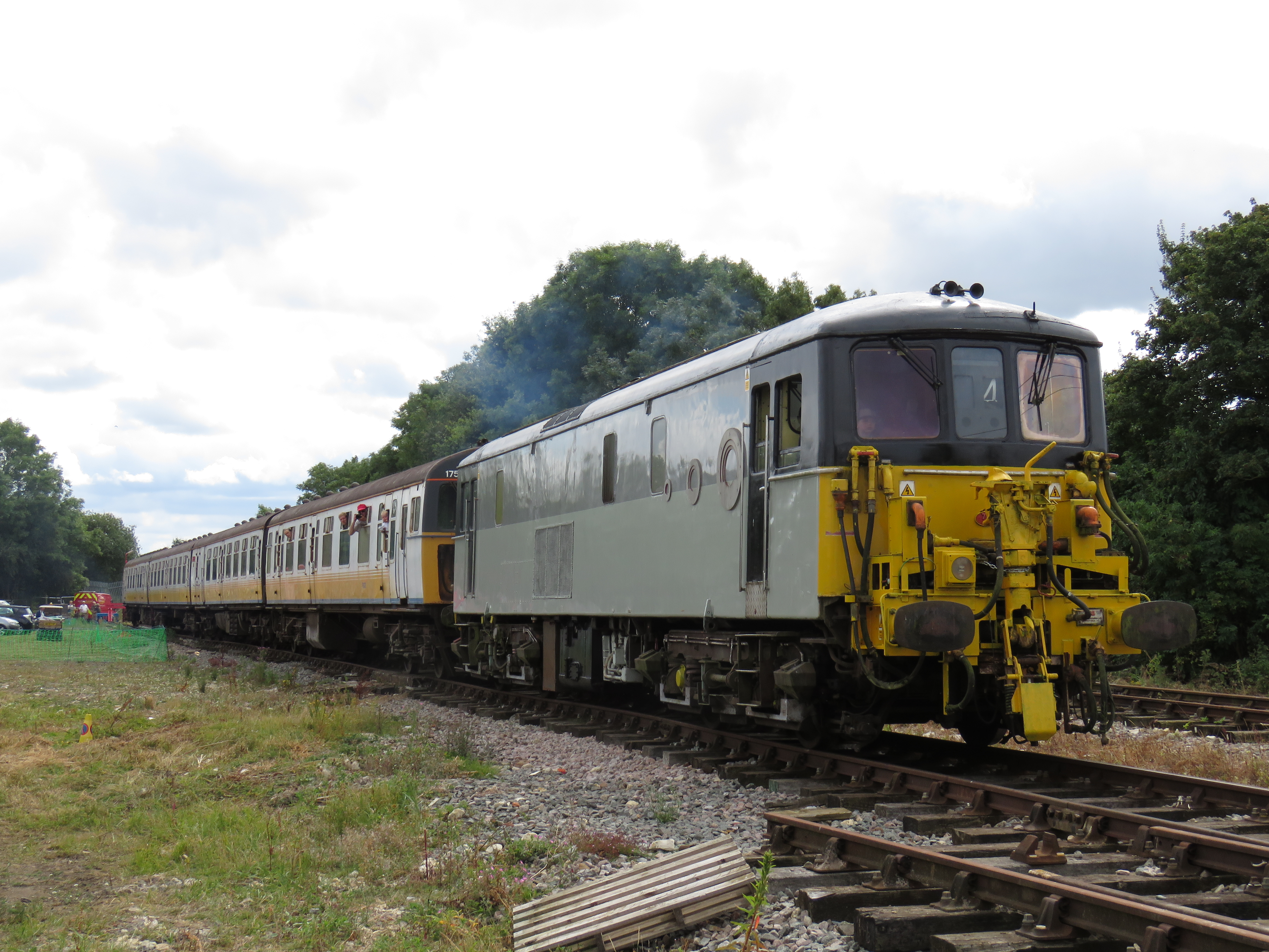 73130 + Class 421 4-CIG 1753 at Finmere 13/08/16 Finmere Network South East 30 Years Anniversary Event 13/08/16.